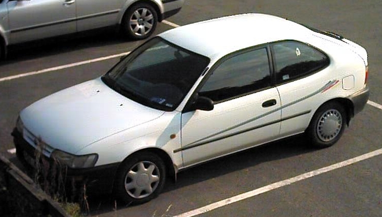 Toyota Corolla AE100. Photo taken in Jönköping, Sweden, by me 26 Sept 2005.